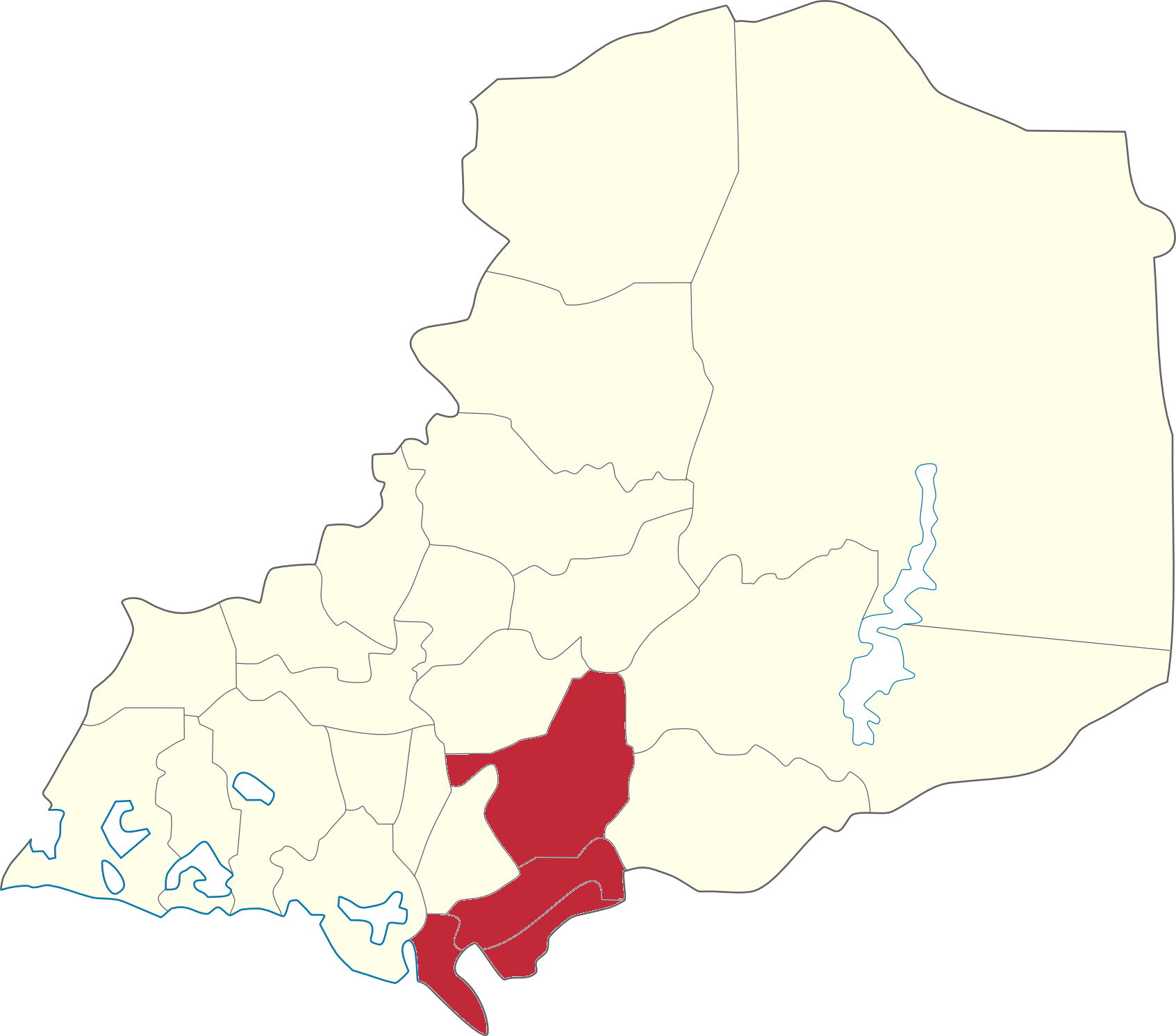 Location of 4th Legislative district of Bulacan, Philippines